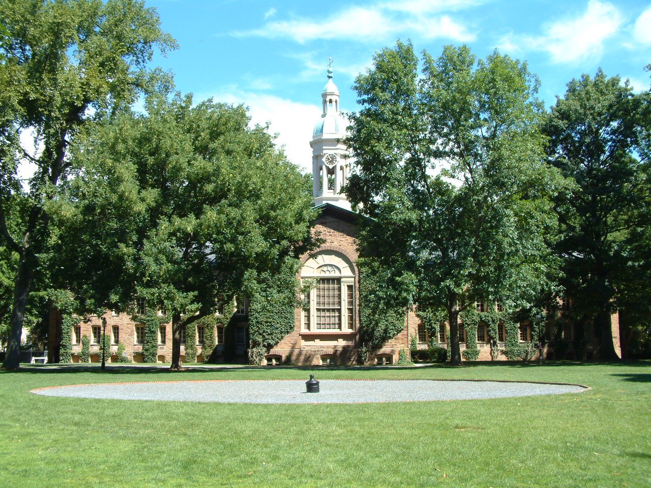 Cannon Green, with Nassau Hall in the background.